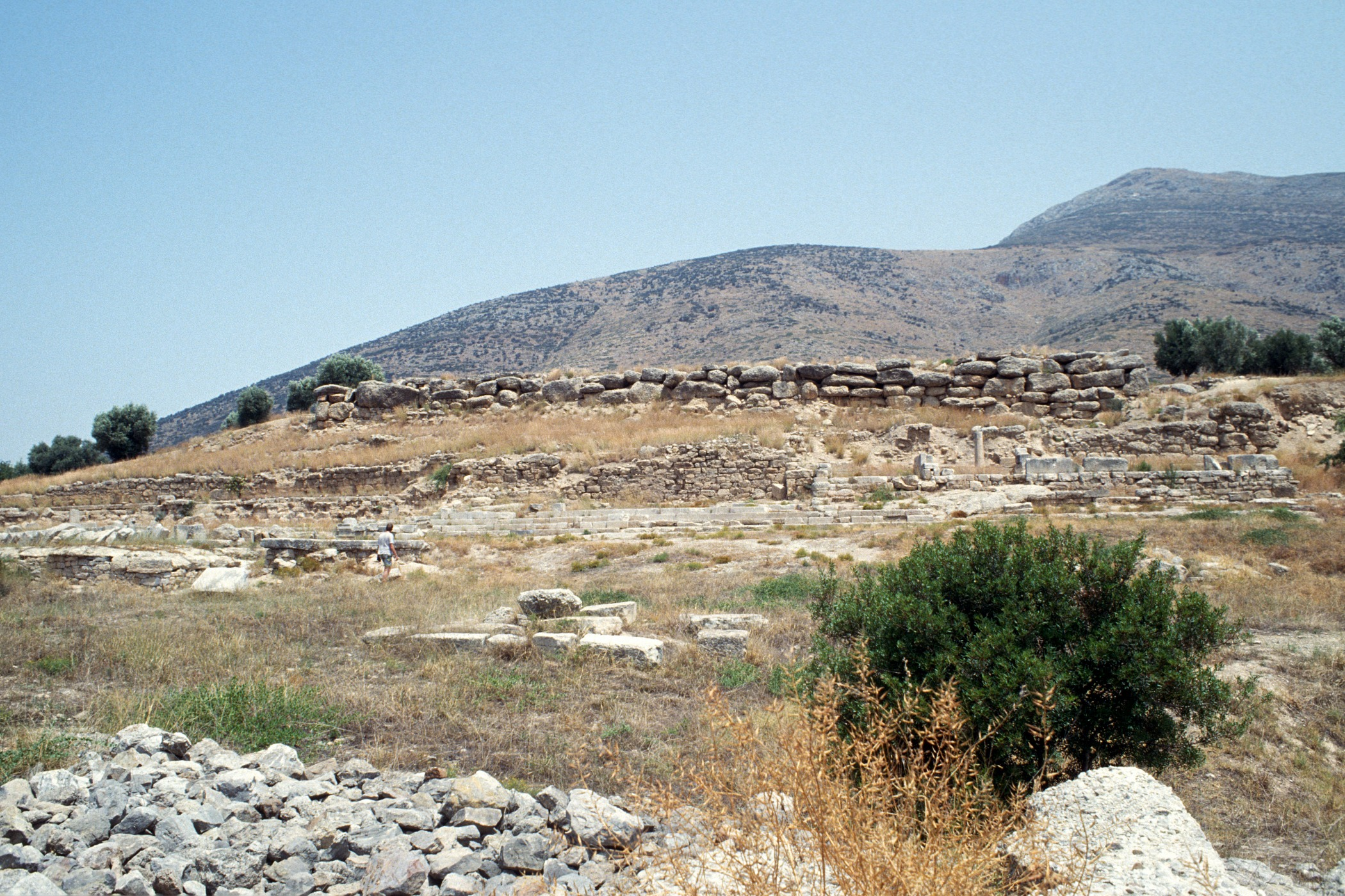 Heraion of Argos in 1993. (Scan from slide)